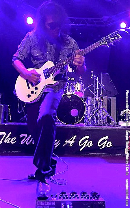 Live performance at the famous Whisky A Go Go night club